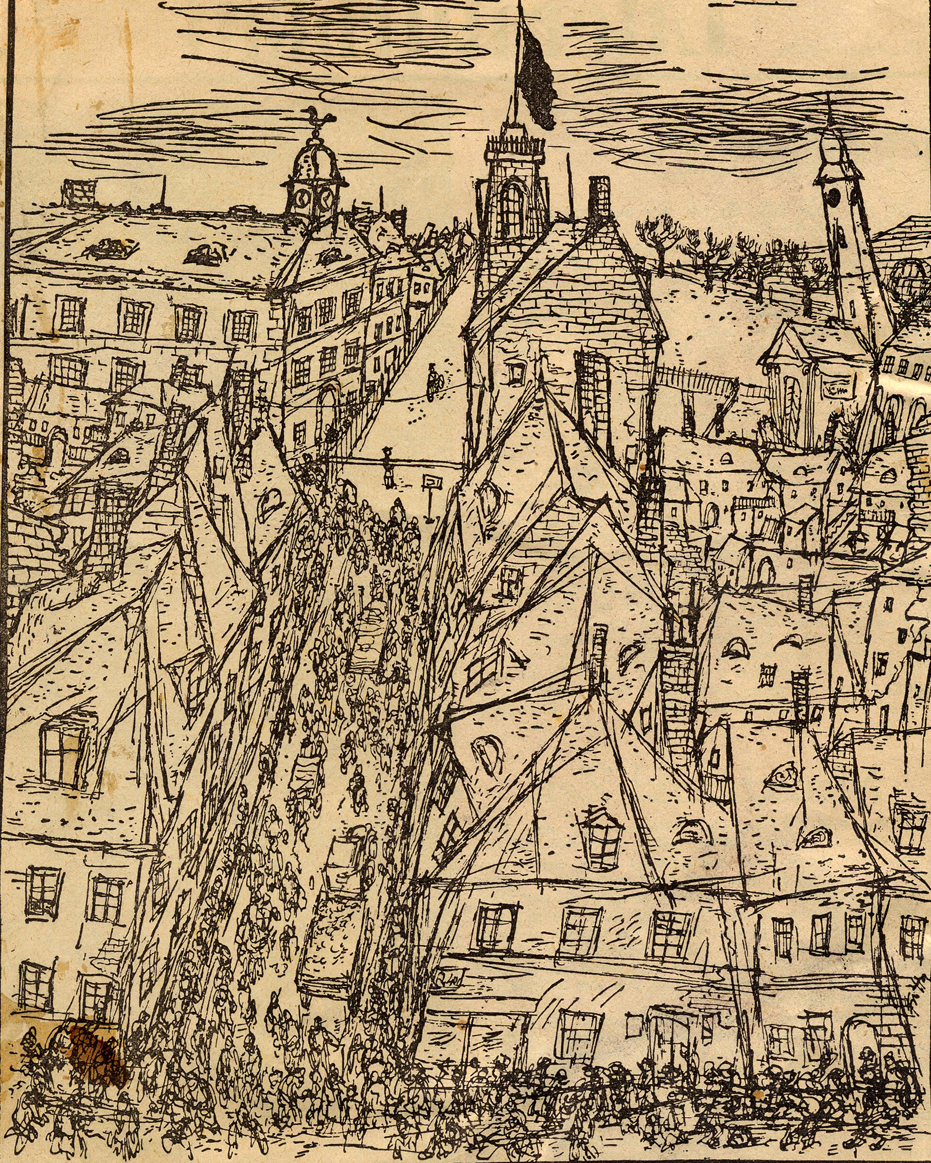 Ink drawing from the Theresienstadt ghetto